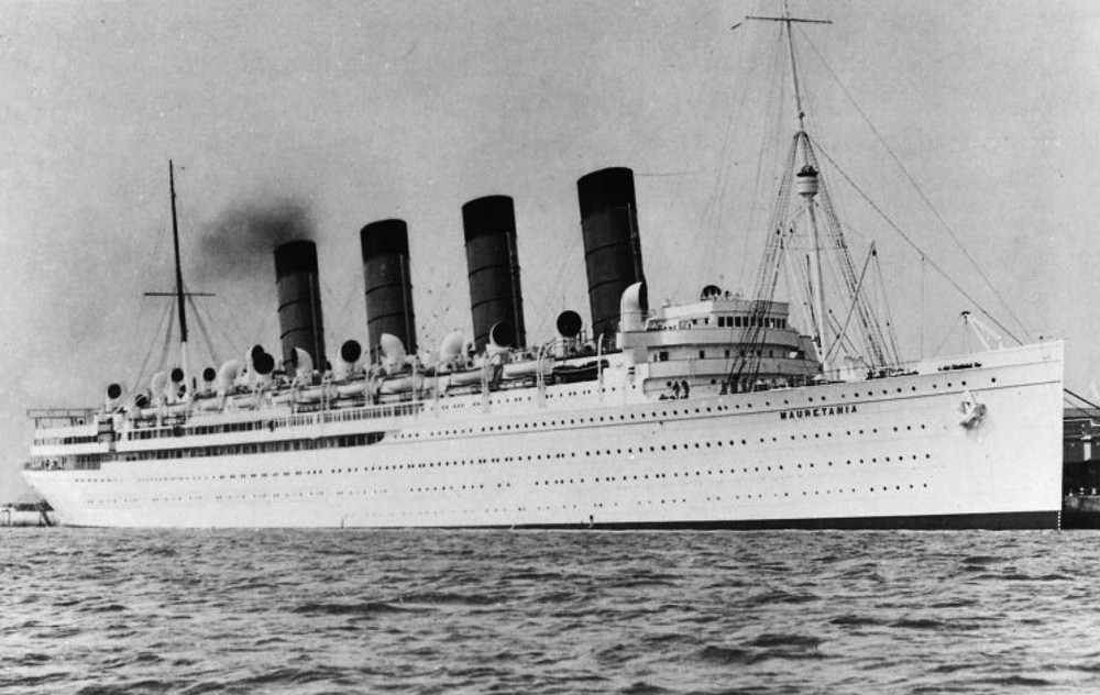 RMS Mauretania in white paint, sometime in the 1930s